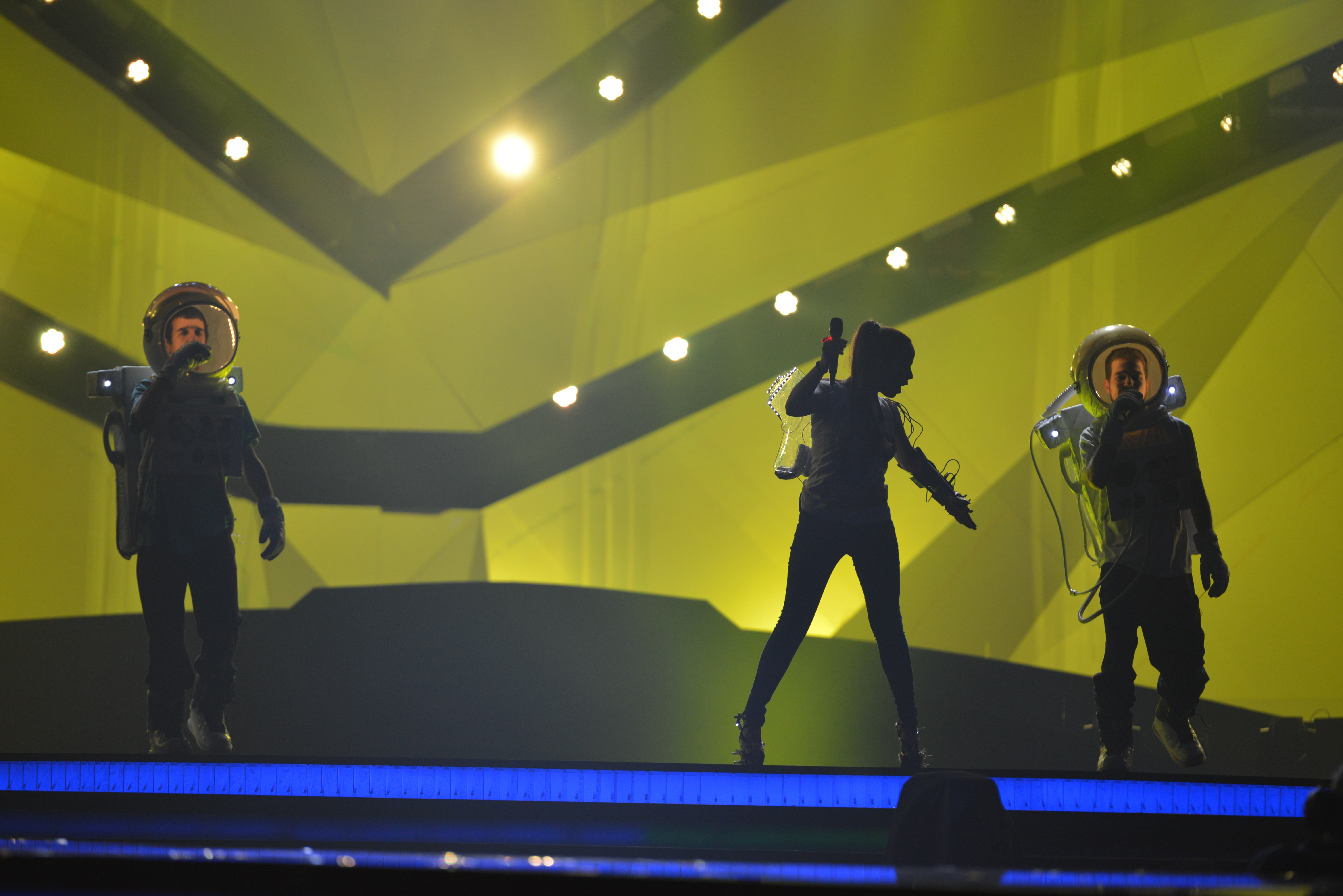 Who See representing Montenegro with the song "Igranka" (Игранка) during the first dress rehearsal of the first semi final of the Eurovision Song Contest 2013 in Malmö. (Help translate this text)